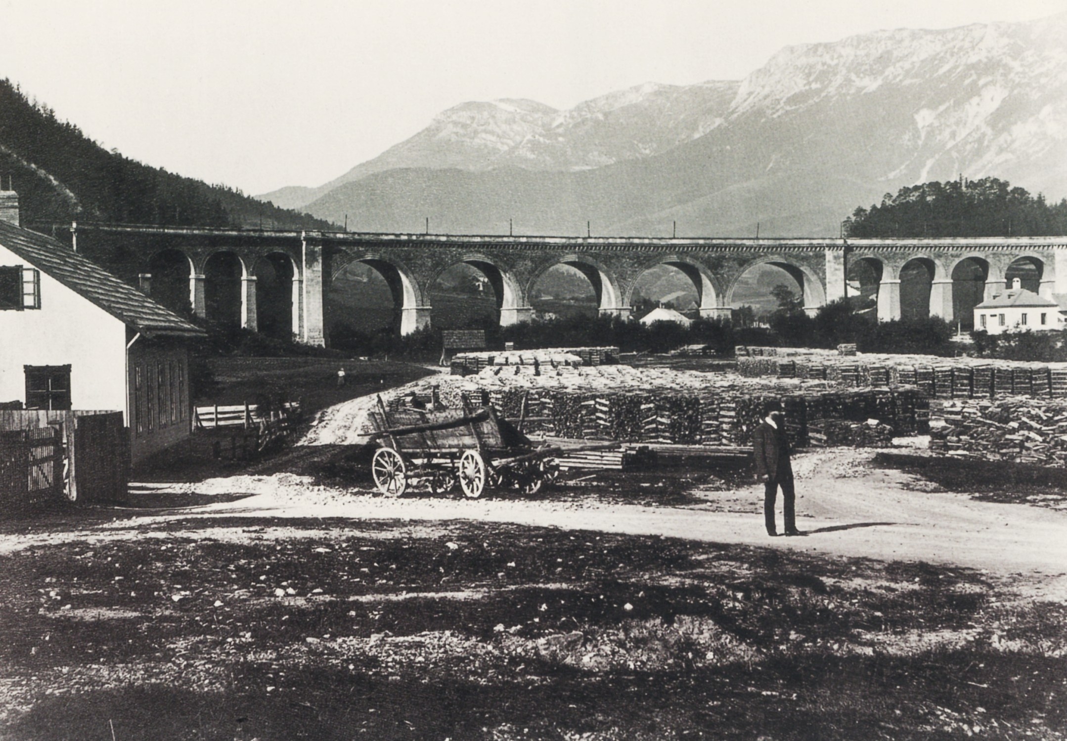 Payerbach viaduct of the Semmering line in Lower Austria